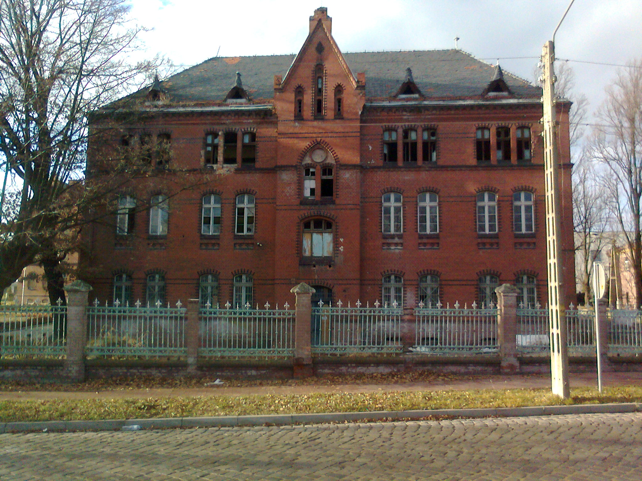 1 Legionów Street in Prudnik